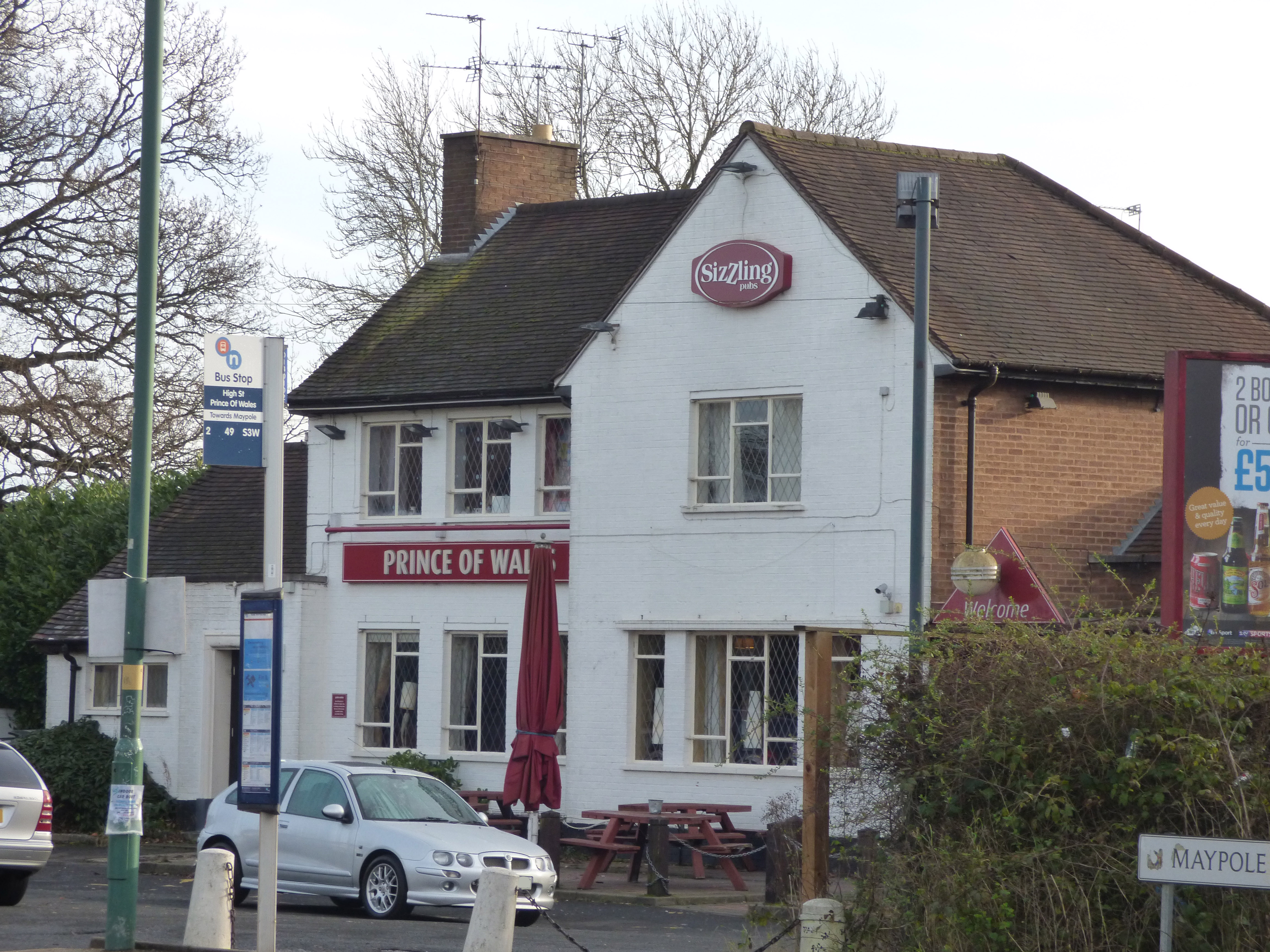 At the beginning of High Street in Solihull Lodge, not far from the Maypole border (the southern border of Birmingham and Solihull). Prince of Wales public house. Part of the Sizzling pubs chain.